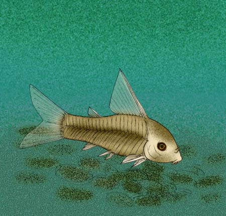 Reconstruction of the fossil catfish Corydoras revelatus, from the Late Paleocene of Salta, Argentina.